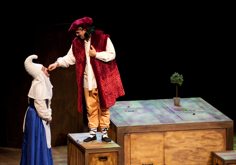 Patxo Telleria and Mikel Martinez basque actors in Lingua nabajorum